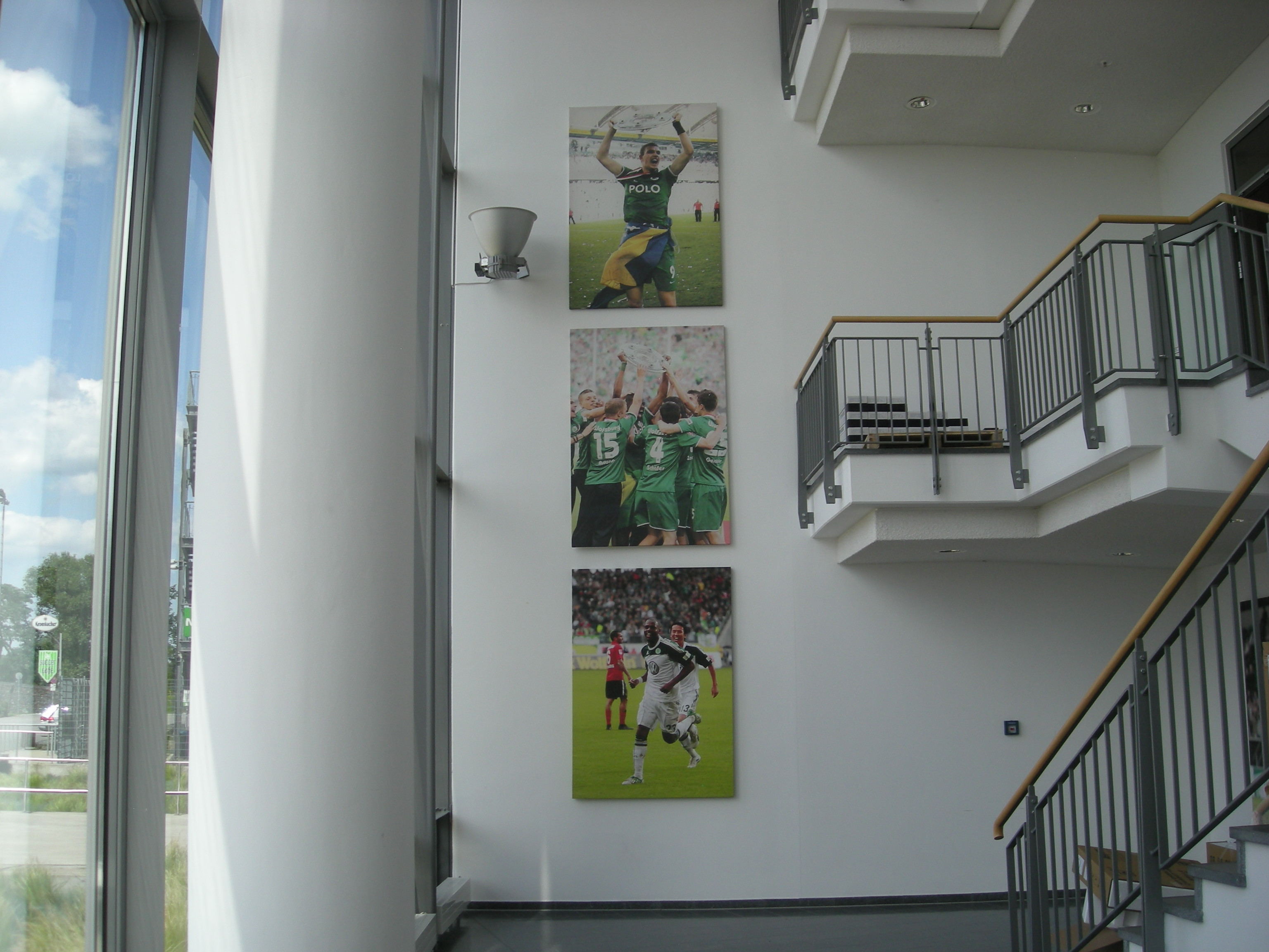 The interior of Volkswagen Arena in Wolfsburg, Niedersachsen (Germany).